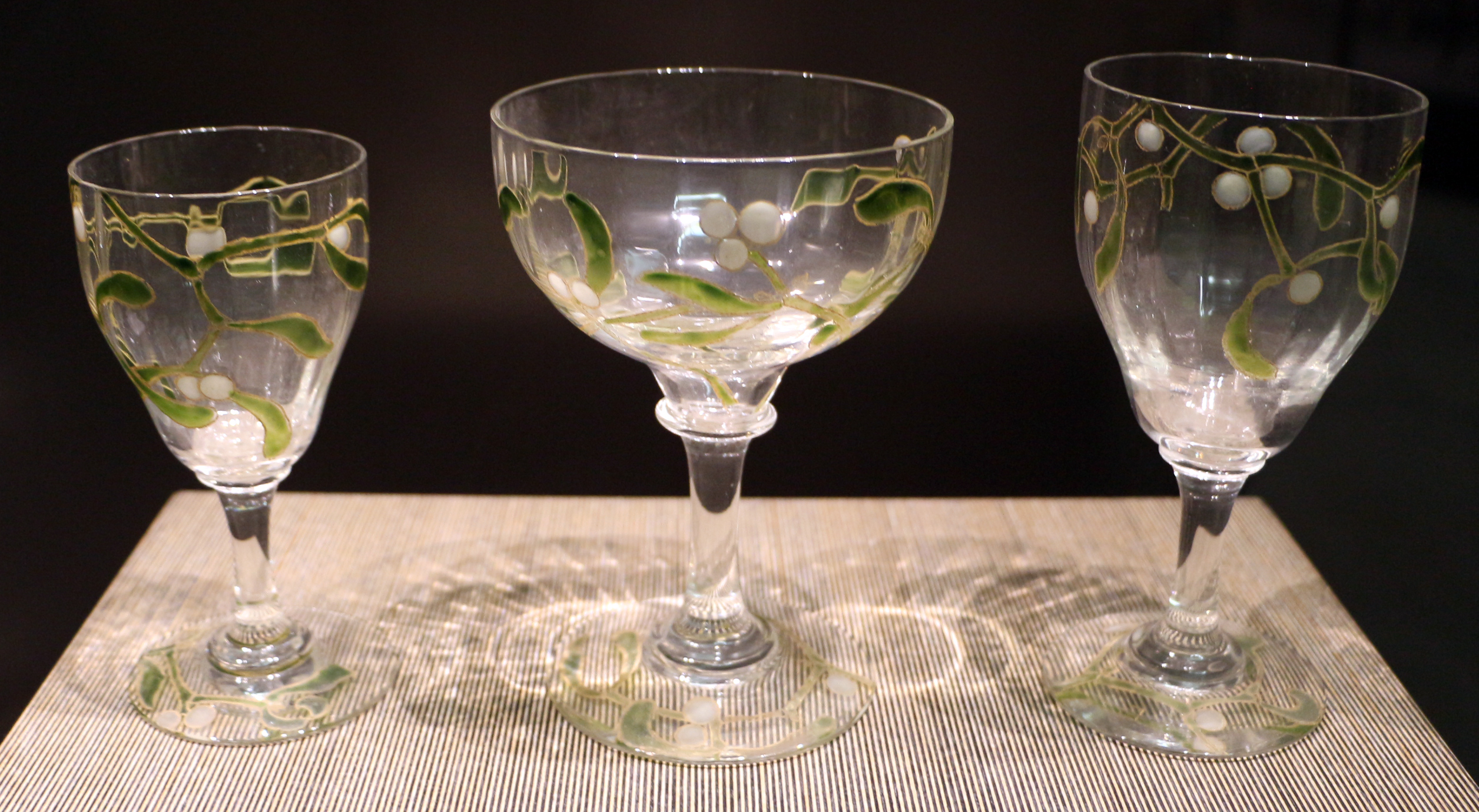 Decorative arts in the Musée d'Orsay